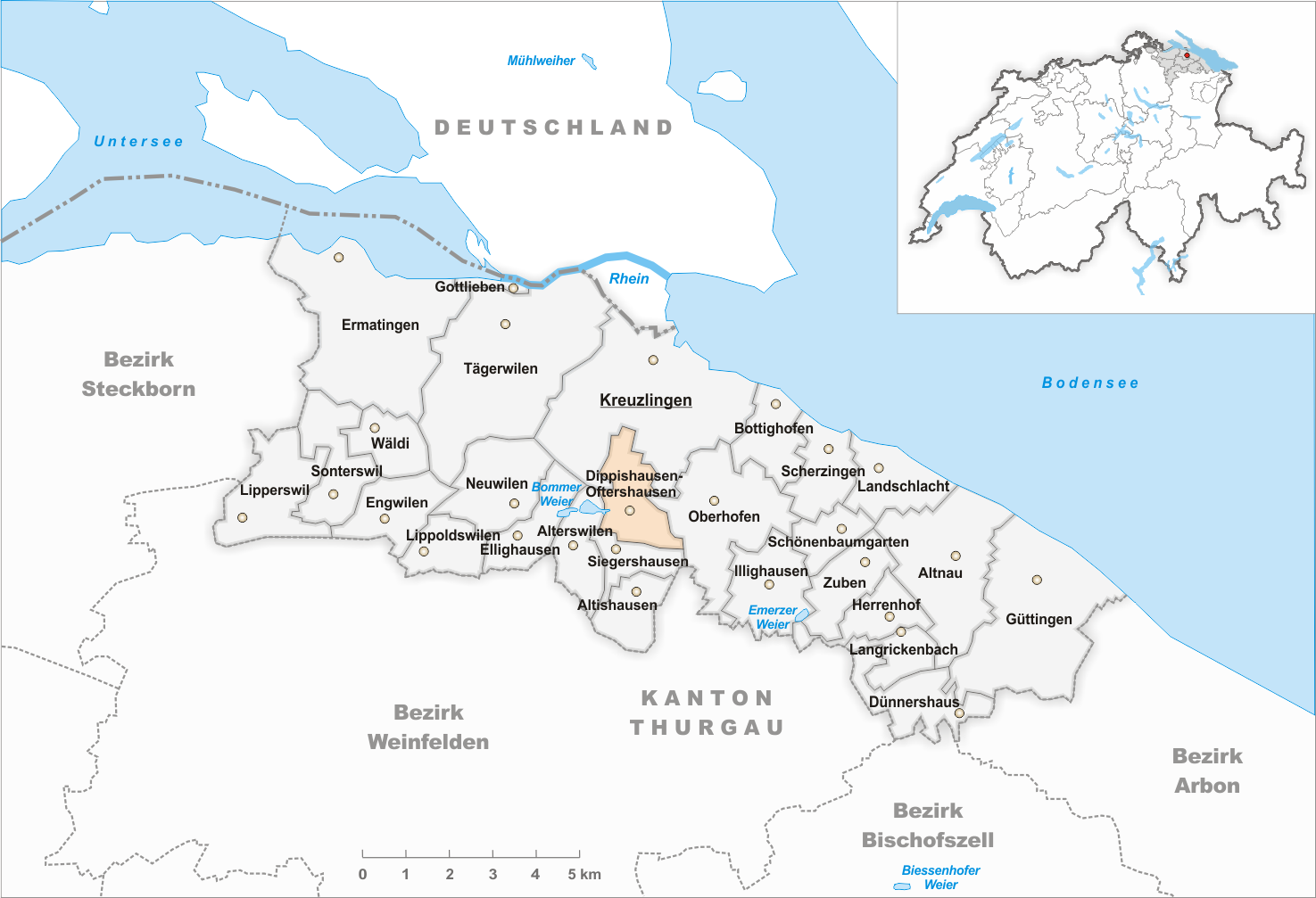 Municipality Dippishausen-Oftershausen